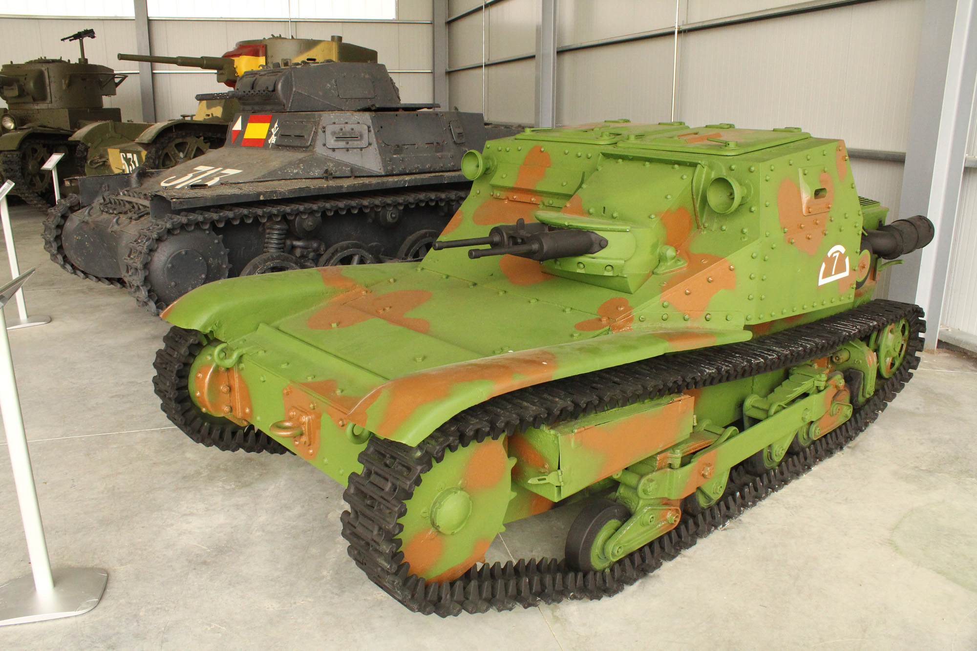 Carro ligero Fiat-Ansaldo CV-35. Las siglas CV, por "Carro Veloce" (carro veloz), indicaban la alta velocidad a la que se desplazaba este pequeño vehículo blindado construido en Italia a partir de 1931. A partir de agosto de 1936 llegaron a España 142 unidades de este carro en sus variantes CV-32 y CV-35, sirviendo en el bando nacional. Los últimos ejemplares fueron retirados del servicio activo en 1960, conservándose actualmente dos ejemplares, uno de los cuales se exhibe en este museo ya restaurado. Armored Units Museum of El Goloso Light tank Fiat-Ansaldo CV-35. The CV stands for "Carro Veloce" (fast car), indicating the high speed at which it moved this small armored vehicle built in Italy since 1931. From August 1936 arrived to Spain 142 units of this car in its variants CV-32 and CV-35, serving in the national side. The last units were withdrawn from active service in 1960, currently preserved two cars, one of which, restored, is on display in this museum.